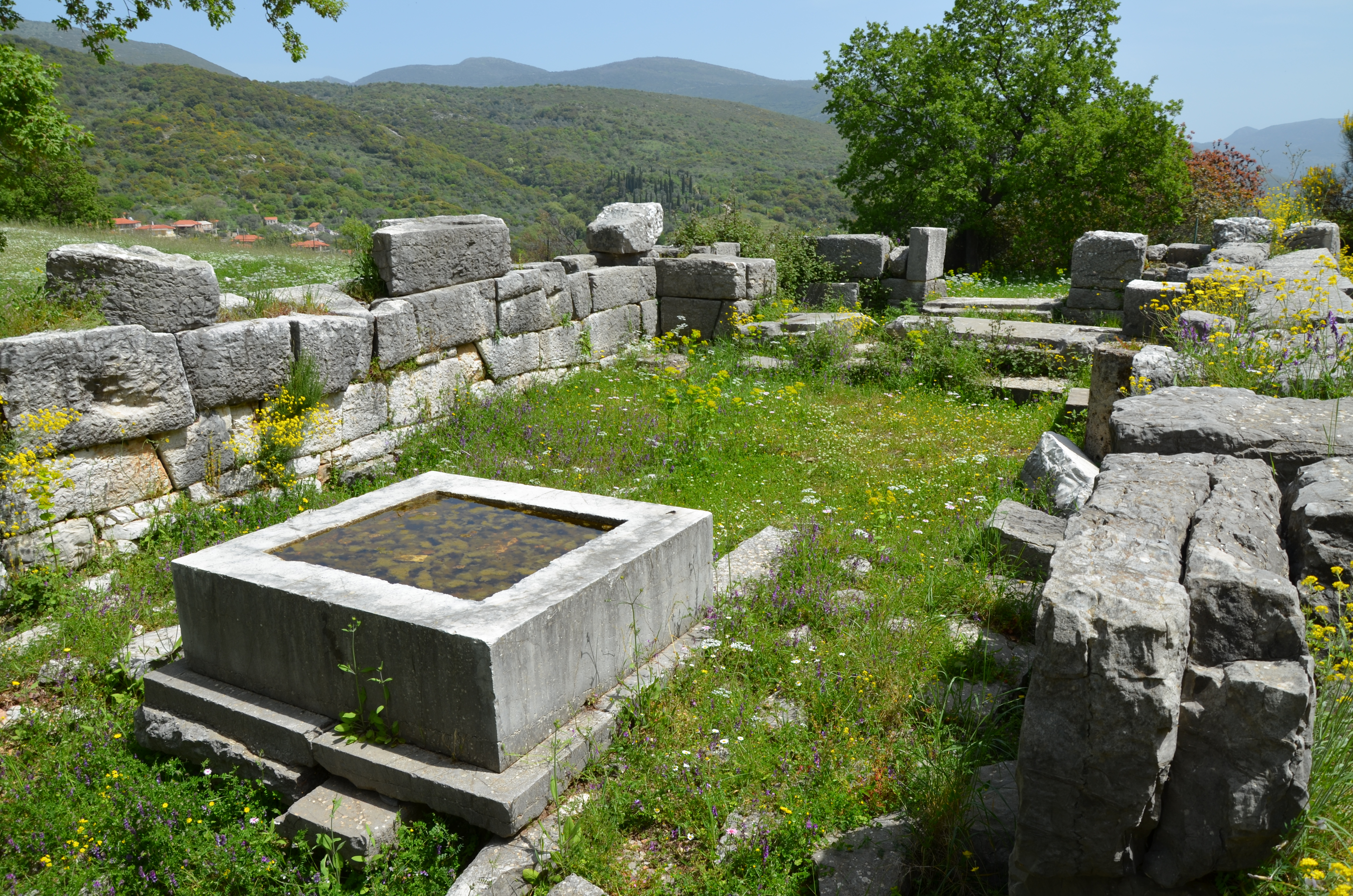 Temple of Athena, Arkadia, Phigaleia, Greece